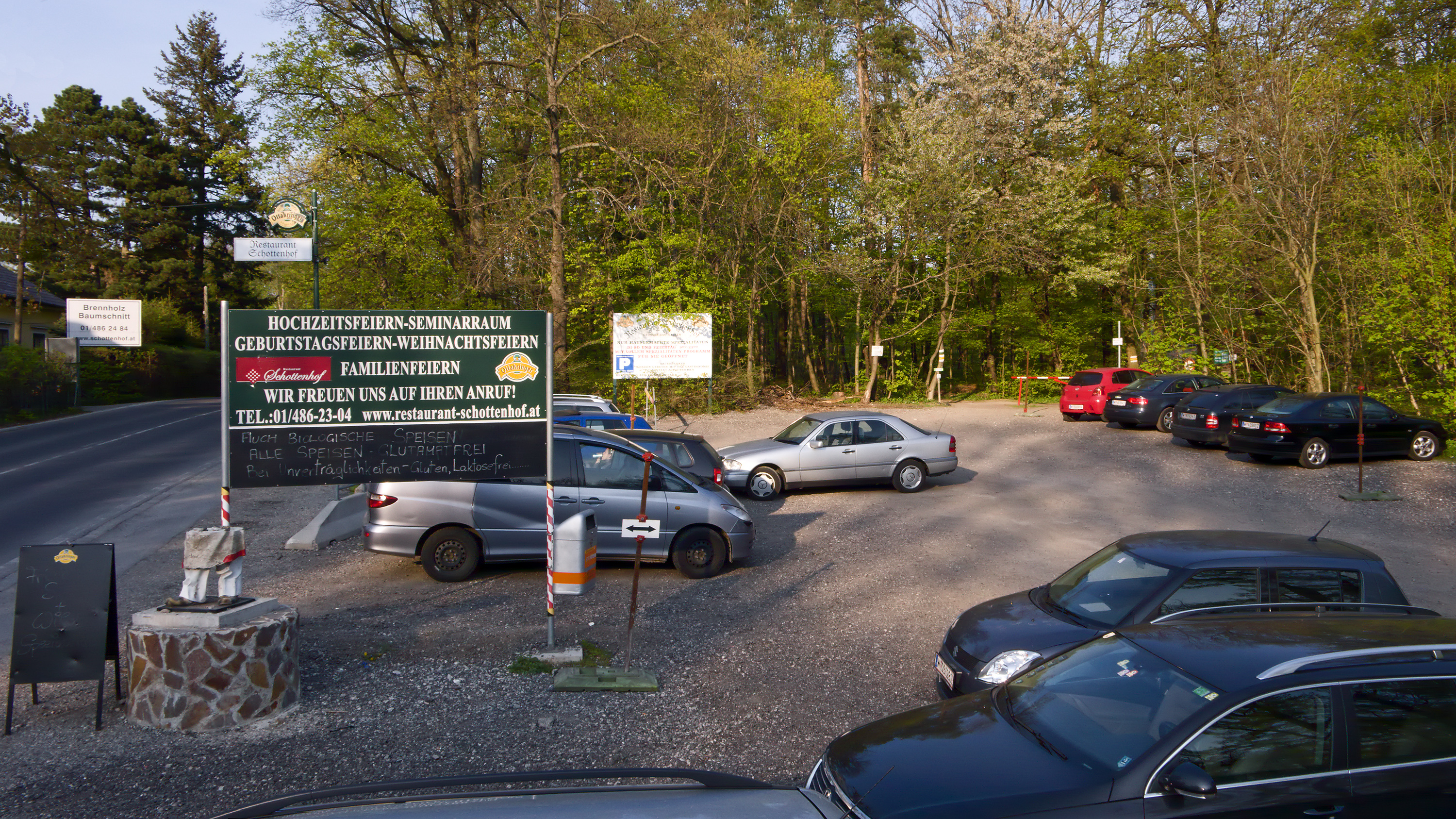 Restaurant Schottenhof in Vienna Penzing